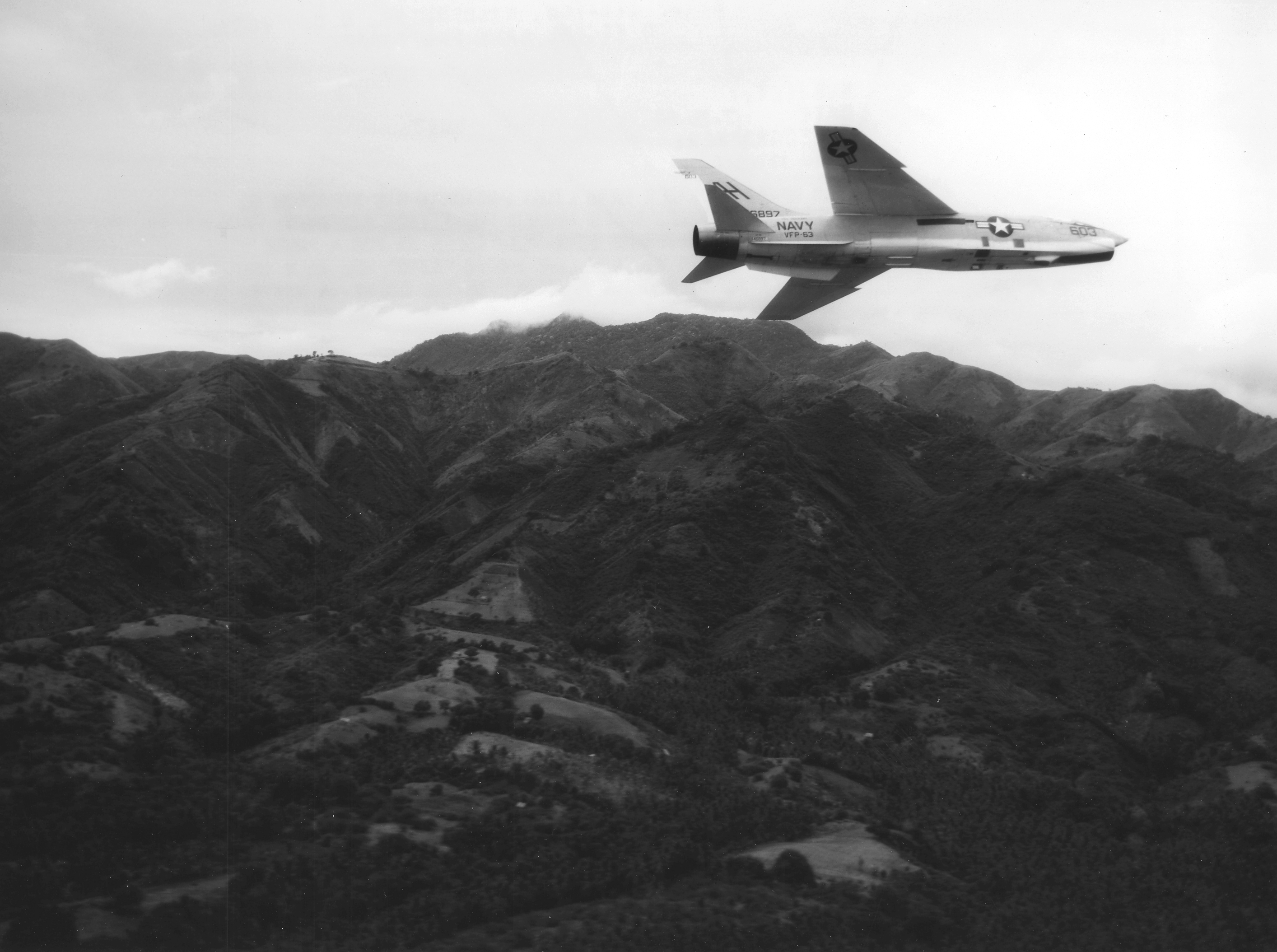 A U.S. Navy Vought RF-8G Crusader (BuNo 146897) from Photographic Reconnaissance Squadron 63 (VFP-63) Detachment G "Eyes of the Fleet" rolls in for a photo run over South Vietnam on 20 July 1966. VFP-63 Det.G was assigned to Attack Carrier Air Wing 16 (CVW-16) aboard the aircraft carrier USS Oriskany (CVA-34) for a deployment to Vietnam from 26 May to 16 November 1966.